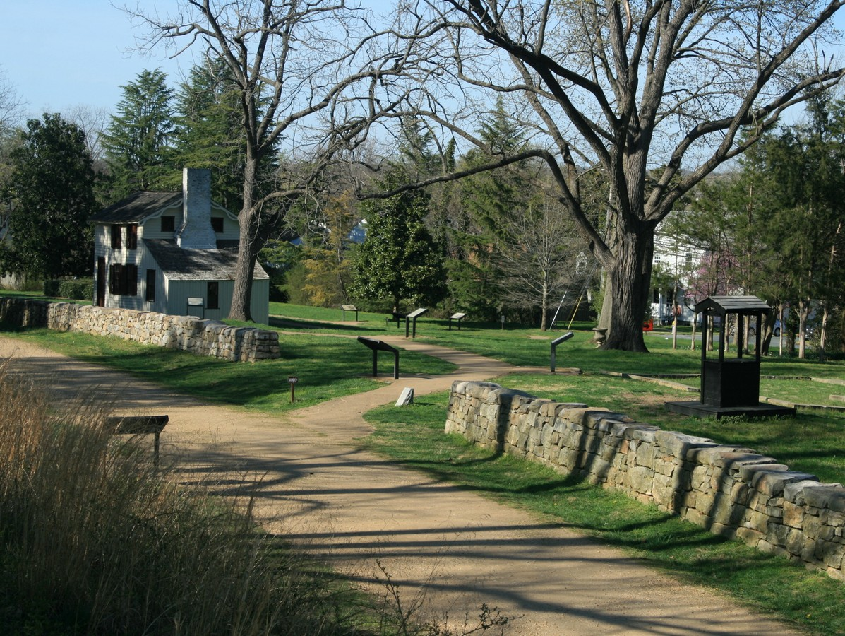 Stonewall at Mary's hights and Innis house. (Fredericksburg, VA)